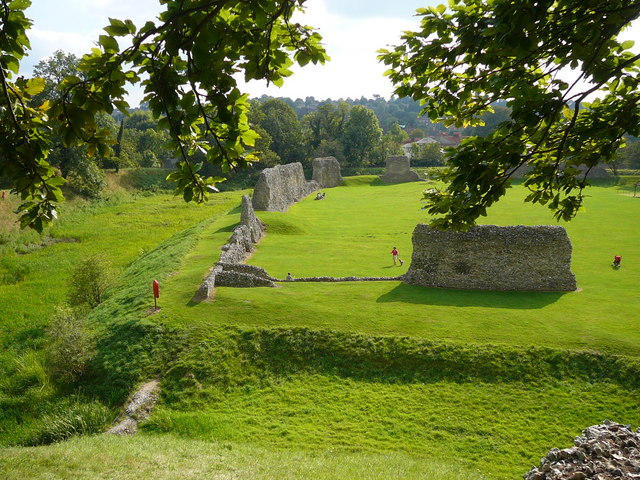 Berkhamsted Castle, outer walls